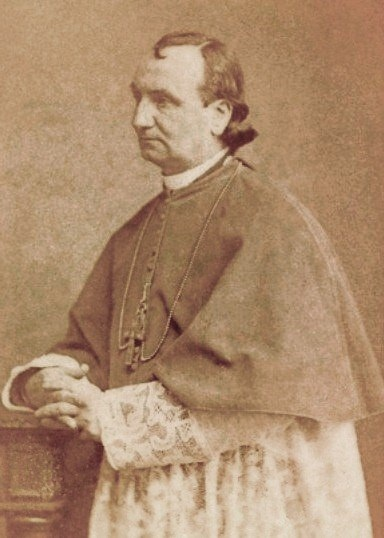 Photograph of Cardinal Gaspard Mermillod from the 1800s